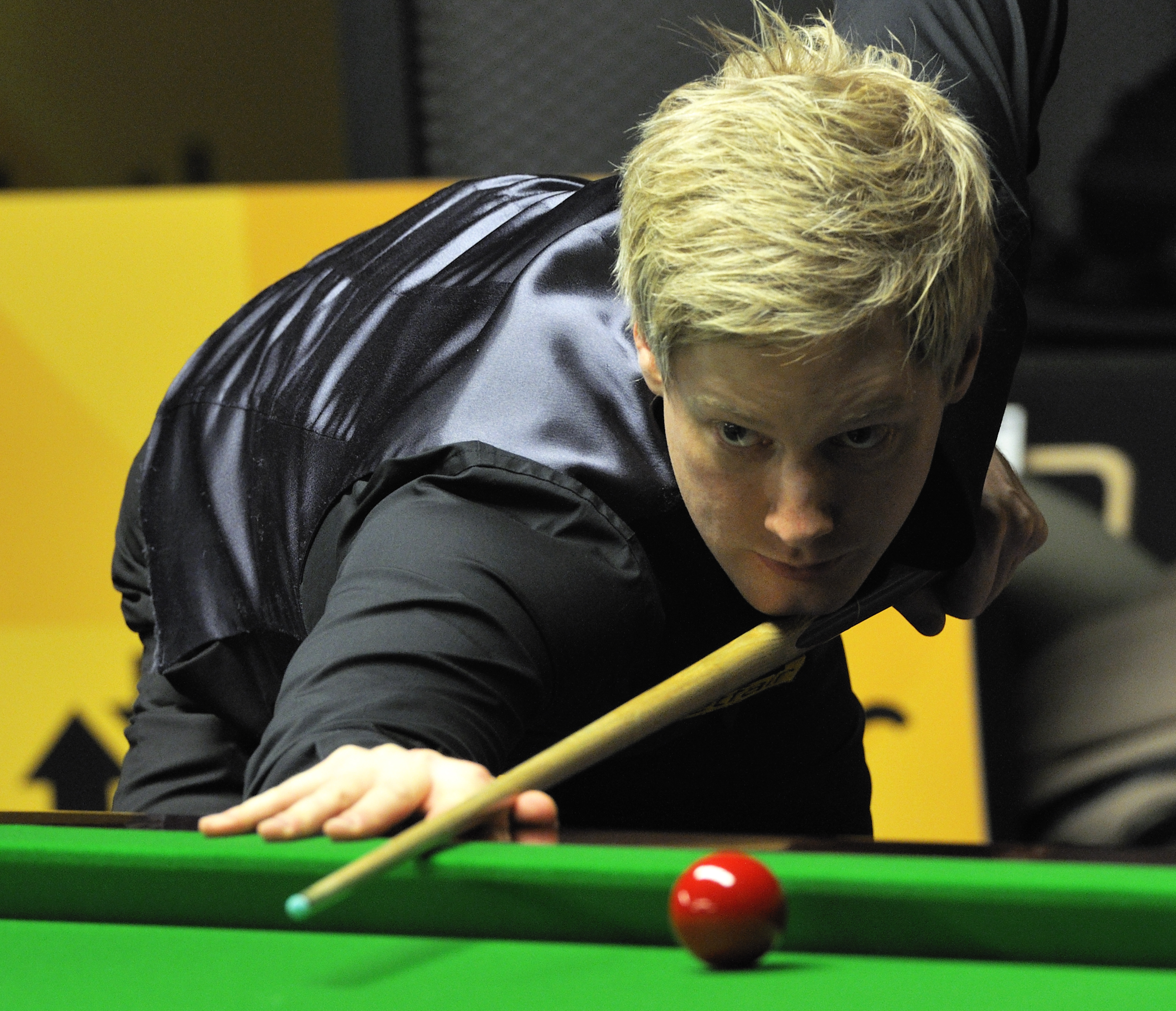 Picture taken in Berlin during the Snooker German Masters in 2013. Neil Robertson.